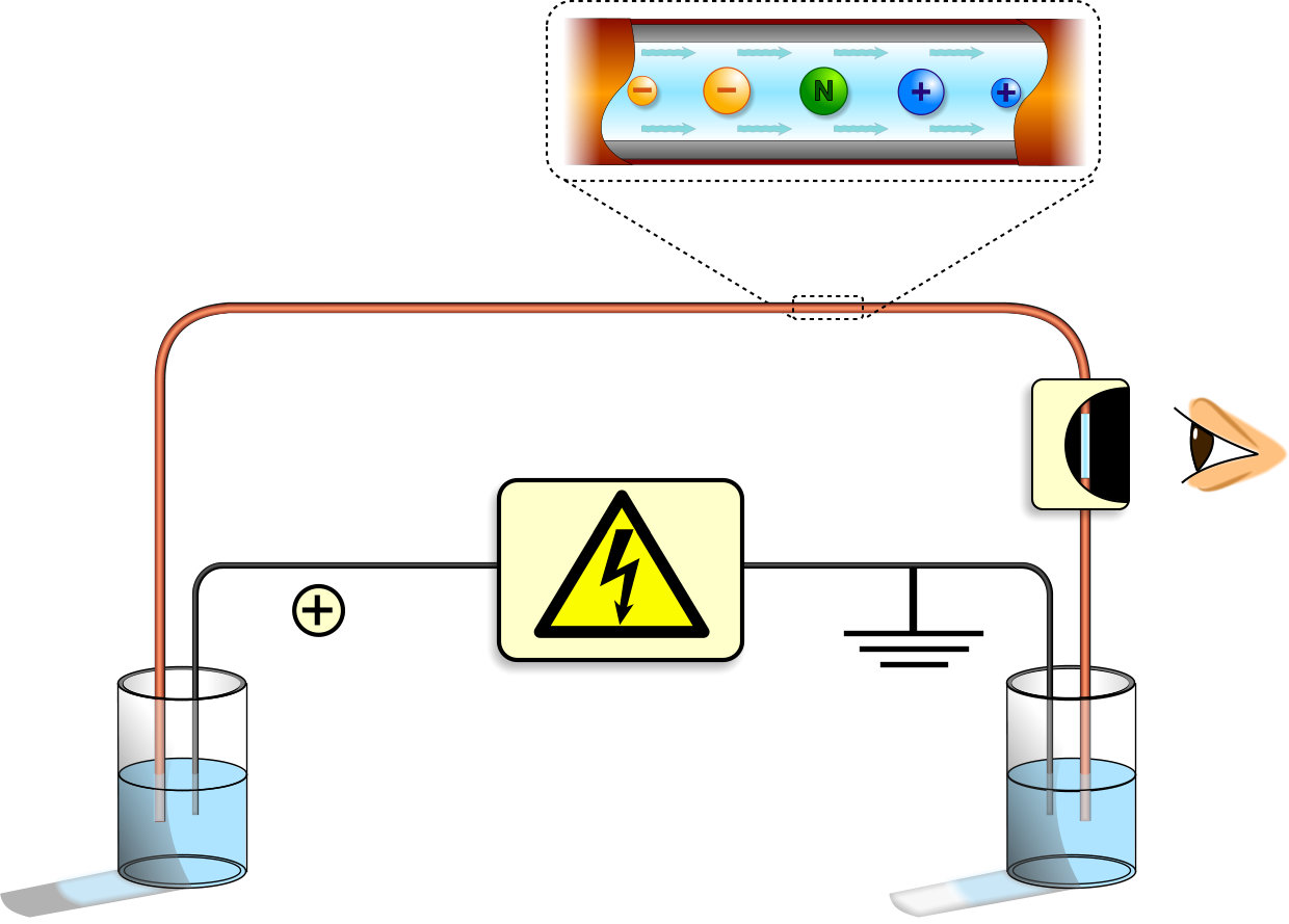 Capillary electrophoresis